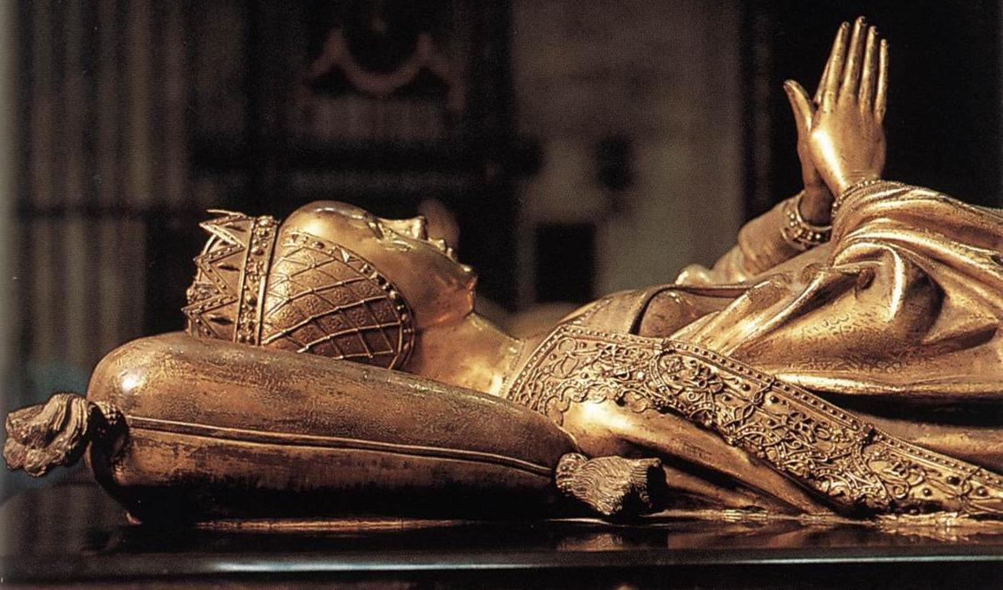 Tomb of Mary of Burgundy by Jan Borreman (1602)- Our Lady church of Bruges (Belgium).